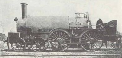 Horace taken in 1854, A GWR Bogie Class Locomotive. 15 locomotives of this 4-4-0T class were constructed. two wee built at Swindon in 1849 and the other 13 were built by R & W Hawthorn between June 1854 and March 1855. These saddle tank engines had 5 foot (1.54m) driving wheels and were designed for branch and local passenger traffic. The design was copied by the South Devon Railway for its passenger locomotives. All except one was withdrawn between 1871 and 1873. The last, Horace, was withdrawn in December 1880.